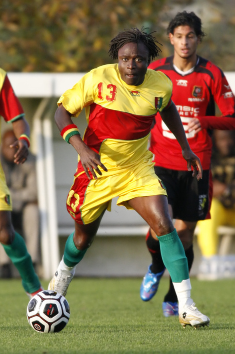 Ibrahima Bangoura, Guinean football player, during Guinean national team friendly match against the Stade Rennais youth team.